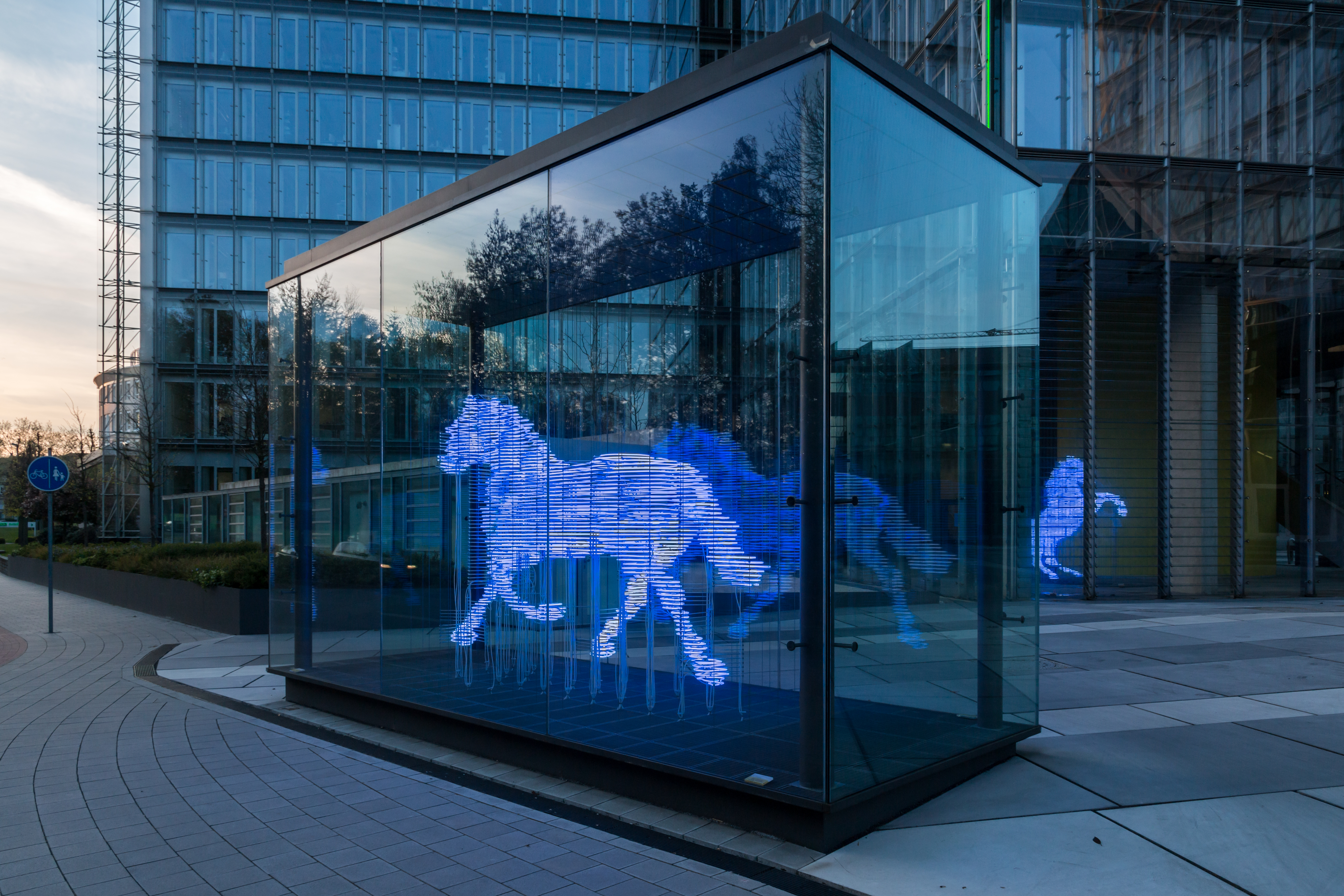 Sculpture “Zwei Pferde für Münster” (Stephan Huber, 2002) at the LVM building, Münster, North Rhine-Westphalia, Germany Sculpture TitleZwei Pferde für MünsterArtistStephan HuberDate2002